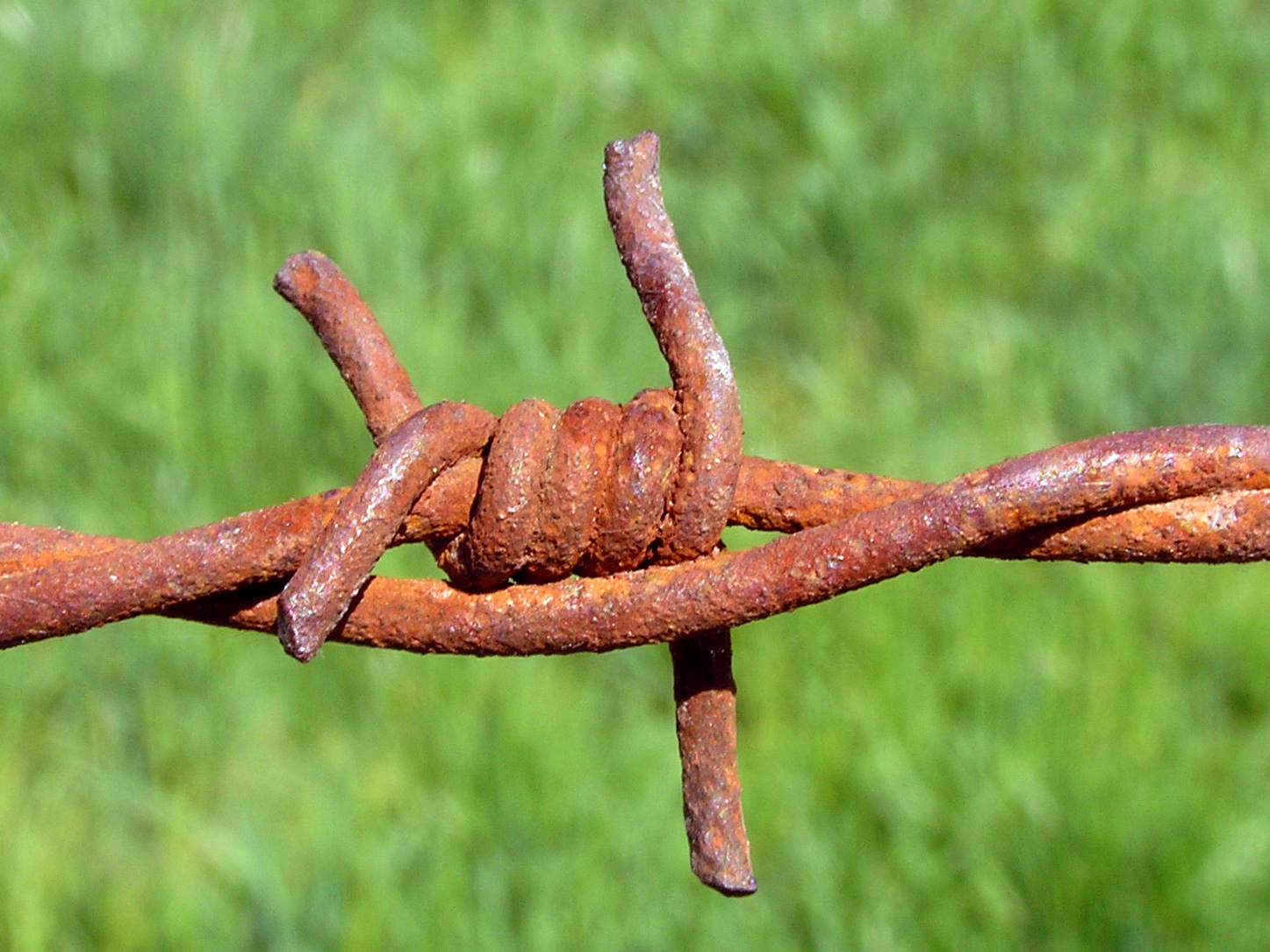 Barbed wire (after years of hard work)